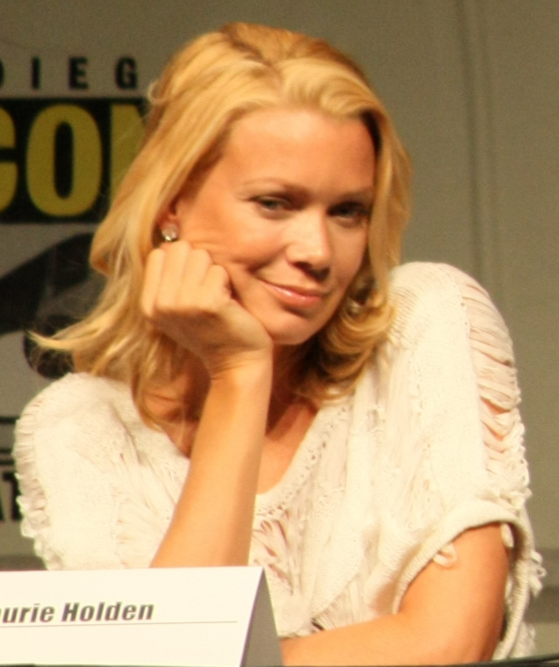 Laurie Holden at the 2012 Comic-Con in San Diego.